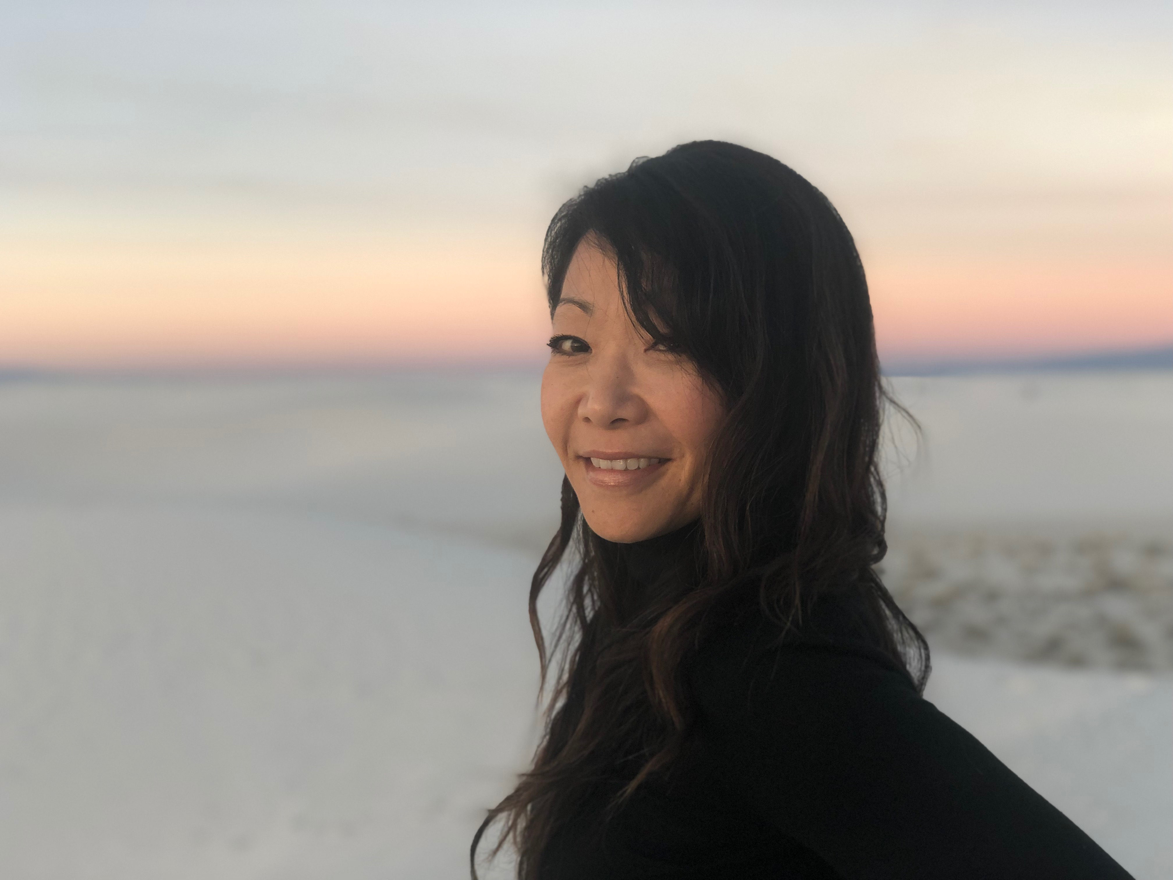 Lee at White Sands, New Mexico